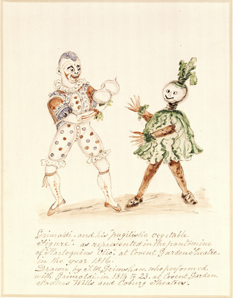 Grimaldi in pose opposite an actor who was playing the part of a "pugilistic vegetable". Taken from the Christmas Pantomime "Harlequin Olio" which was staged at the Covent Garden Theatre in 1816. This watercolour drawing is by T M Grimshaw, who performed with Grimaldi from 1814 to 1823 at the Covent Garden, Sadlers Wells and Coburg theatres.